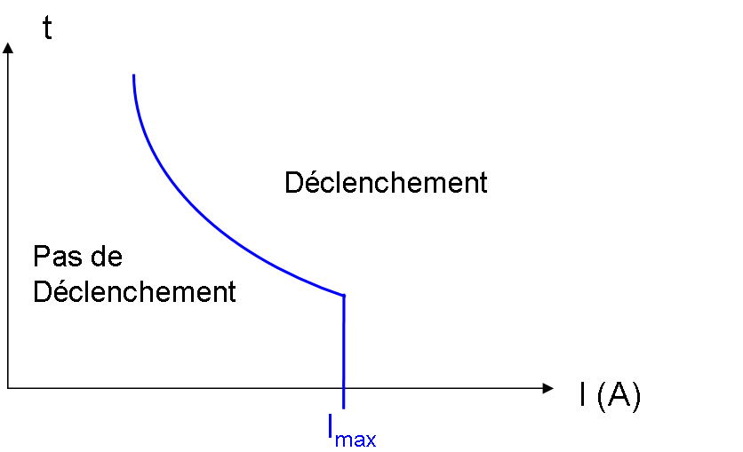 Protection maximum de courant temps inversé et limite maximale